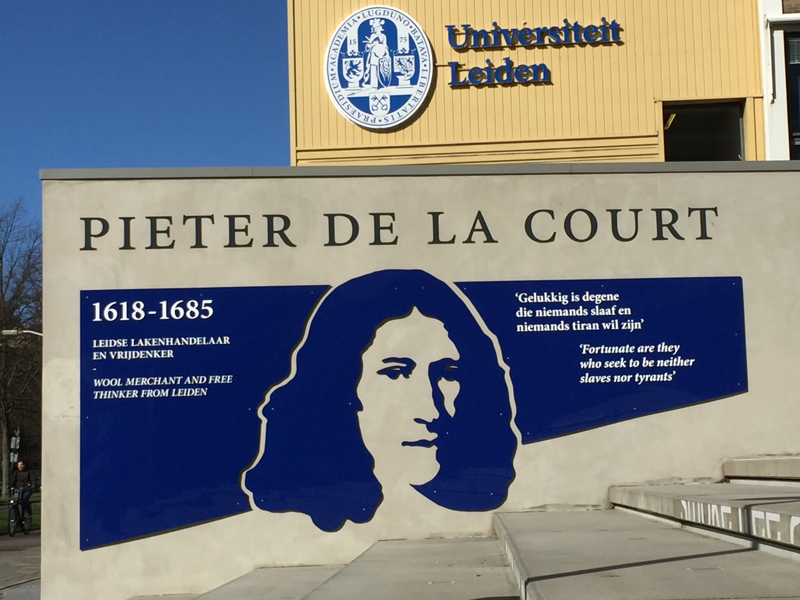 Pieter de la Court building, Leiden University, Wassenaarseweg 52, Leiden. Text reads: 'Pieter de la Court (1618-1685), wool merchant and free thinker (sic) from Leiden. "Fortunate are they who seek to be neither slaves nor tyrants".'